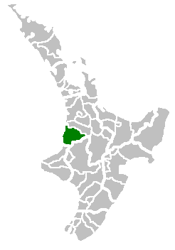 Waitomo Territorial Authority. Waitomo District.